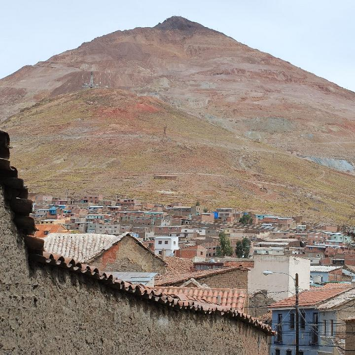 Potosi Open Cast Mining, Bolivia